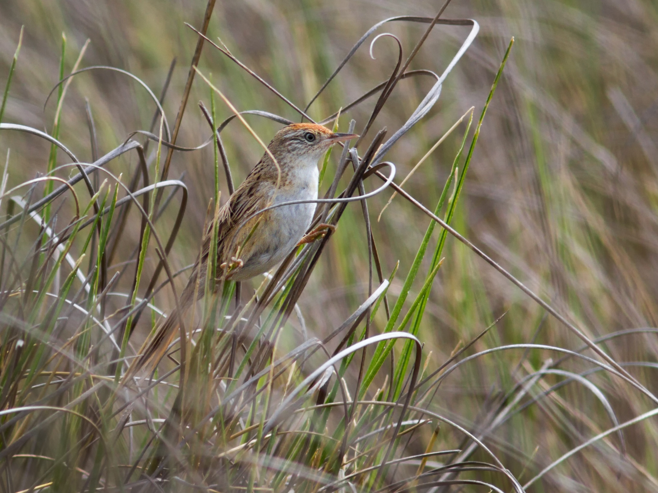 Bay-capped Wren-Spinetail; Tavares, Rio Grande do Sul, Brazil